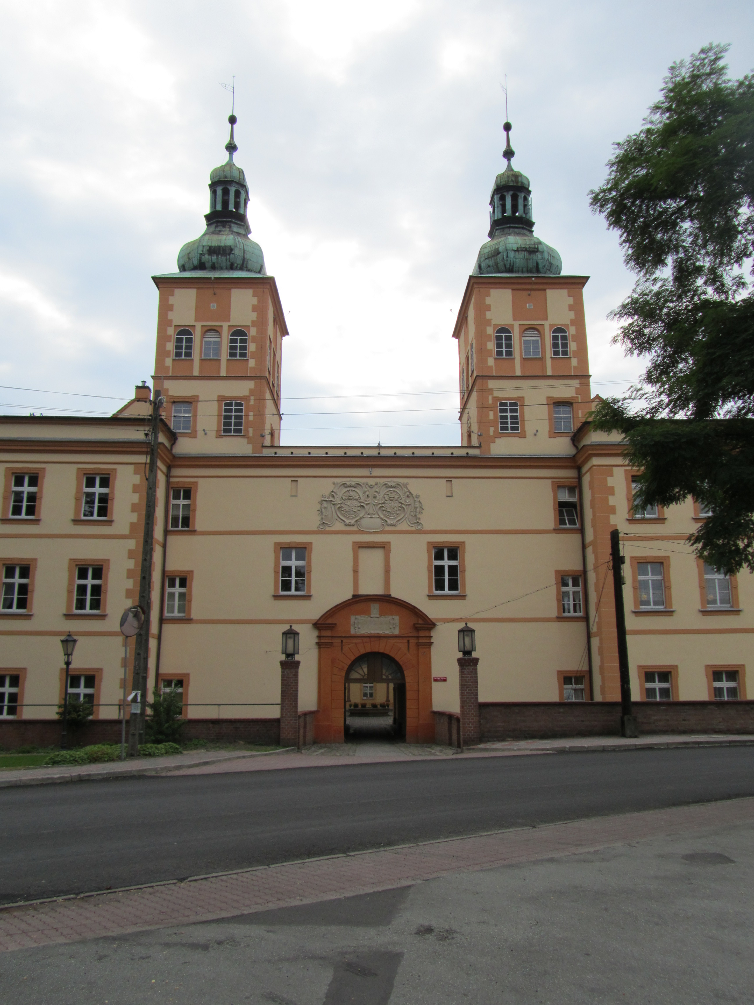 Castle in Prószków, Poland